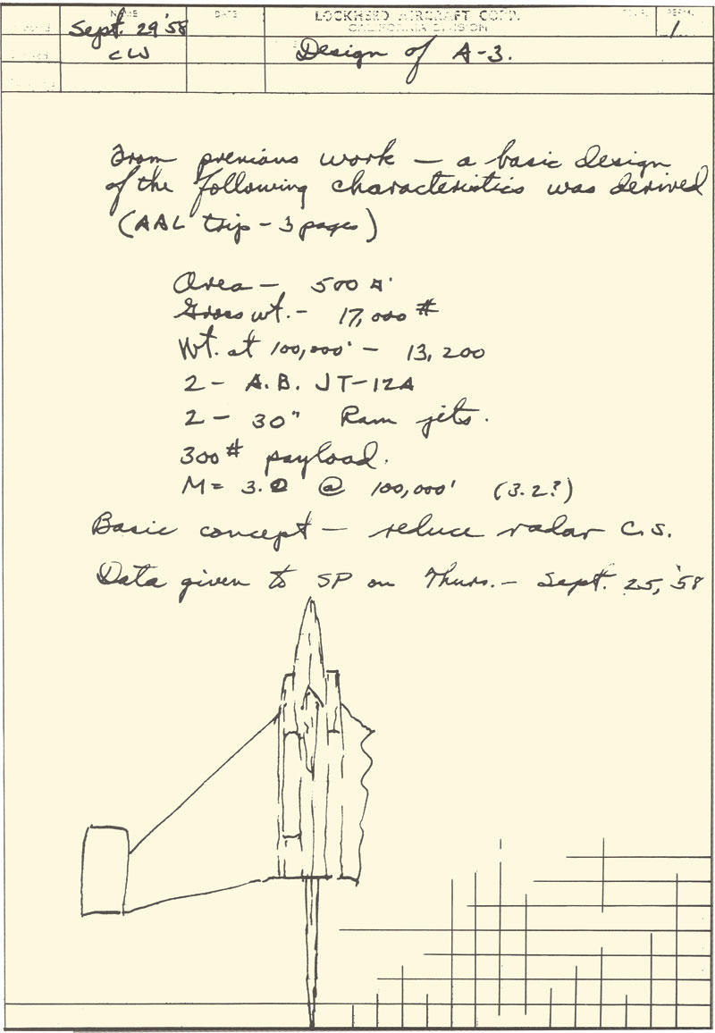 Sketch of a Lockheed A-3 Mach 3 ram jet from Kelly Johnson's notebook